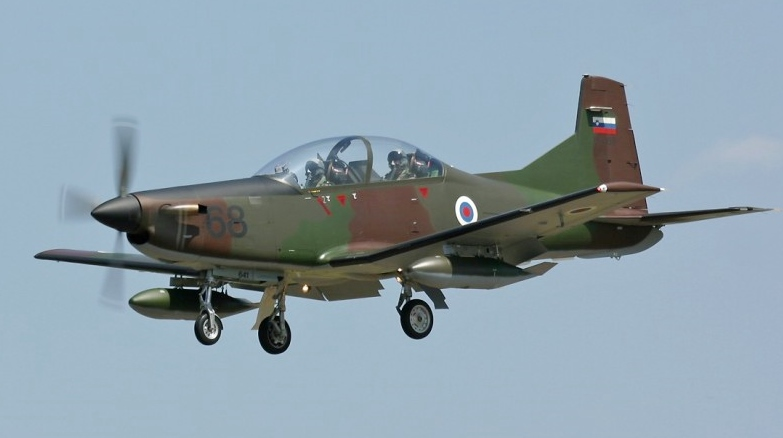 A Slovenian Pilatus PC9 landing at Cerklje AFB.